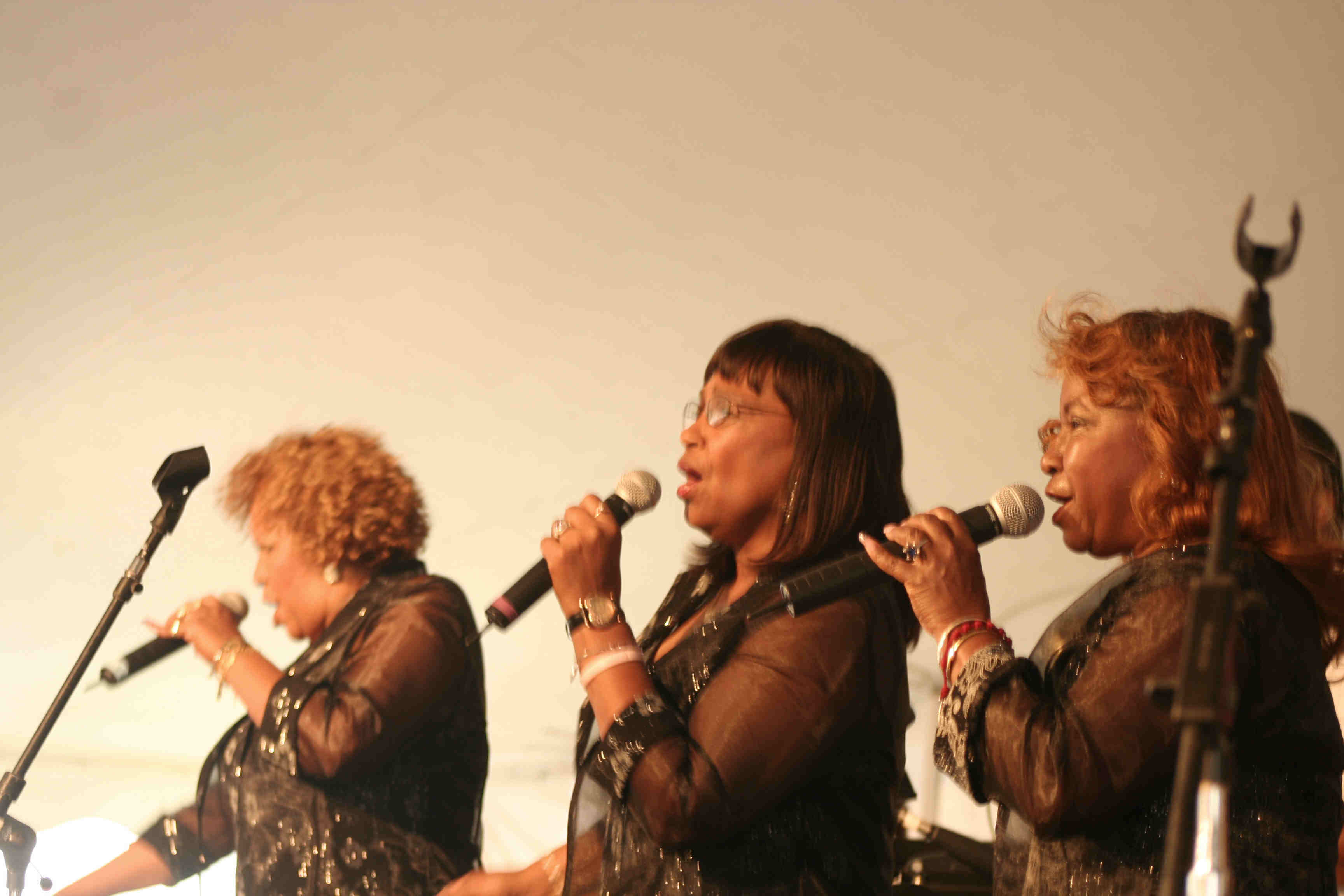 The Dixie Cups . . Smithsonian Folklife Festival . Been In The Storm So Long . Jubilee Stage . National Mall . WDC . Saturday, 8 July 2006 . Elvert Xavier Barnes Photography